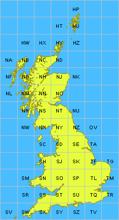 National Grid for Great Britain. Recolored for better separation of sea and lands, and added the missing 'OV' cell number on map, because it actually includes a tiny part of land in the South-West corner.